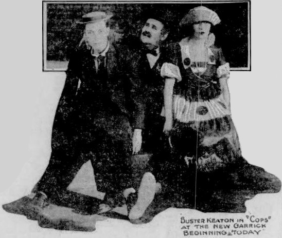 Newspaper advertisement for the American comedy film Cops (1922) with Buster Keaton, Joe Roberts, and Virginia Fox, overlapping ads for other films removed from image, on page 8 of the June 10, 1922 Duluth Herald.